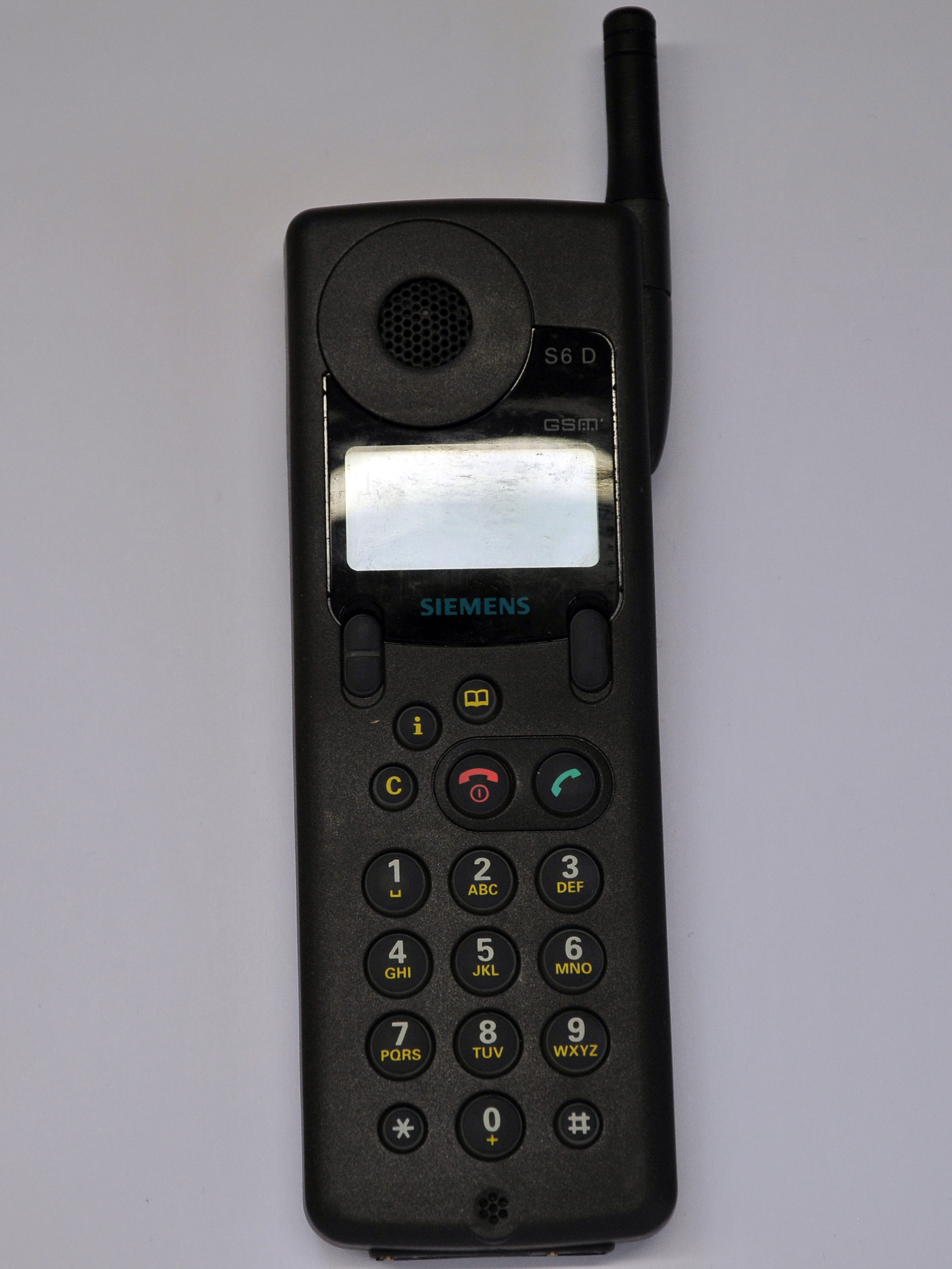 Siemens S6 D mobile phone